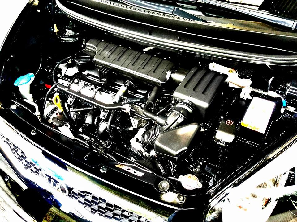 2012 Kia Picanto (Philippine model) Kappa II 1.25 liter engine.